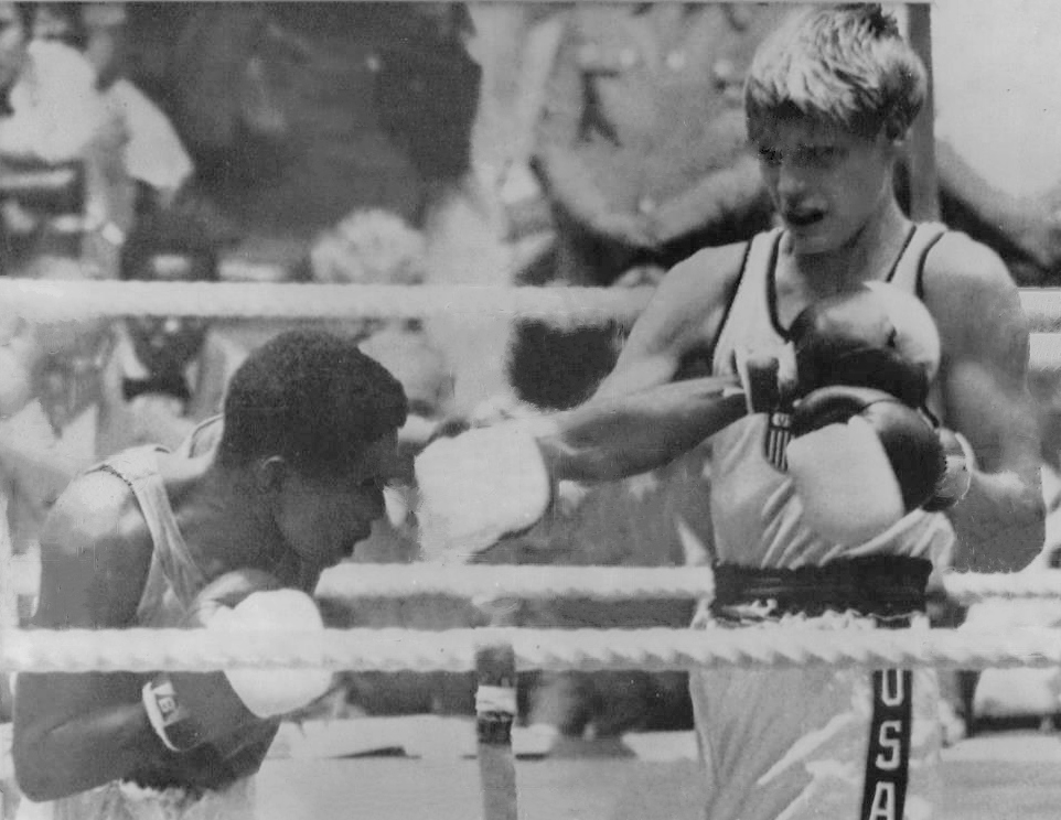 1972 Press Photo Boxers Tim Dement and Calixto Perez in Olympic Boxing Match